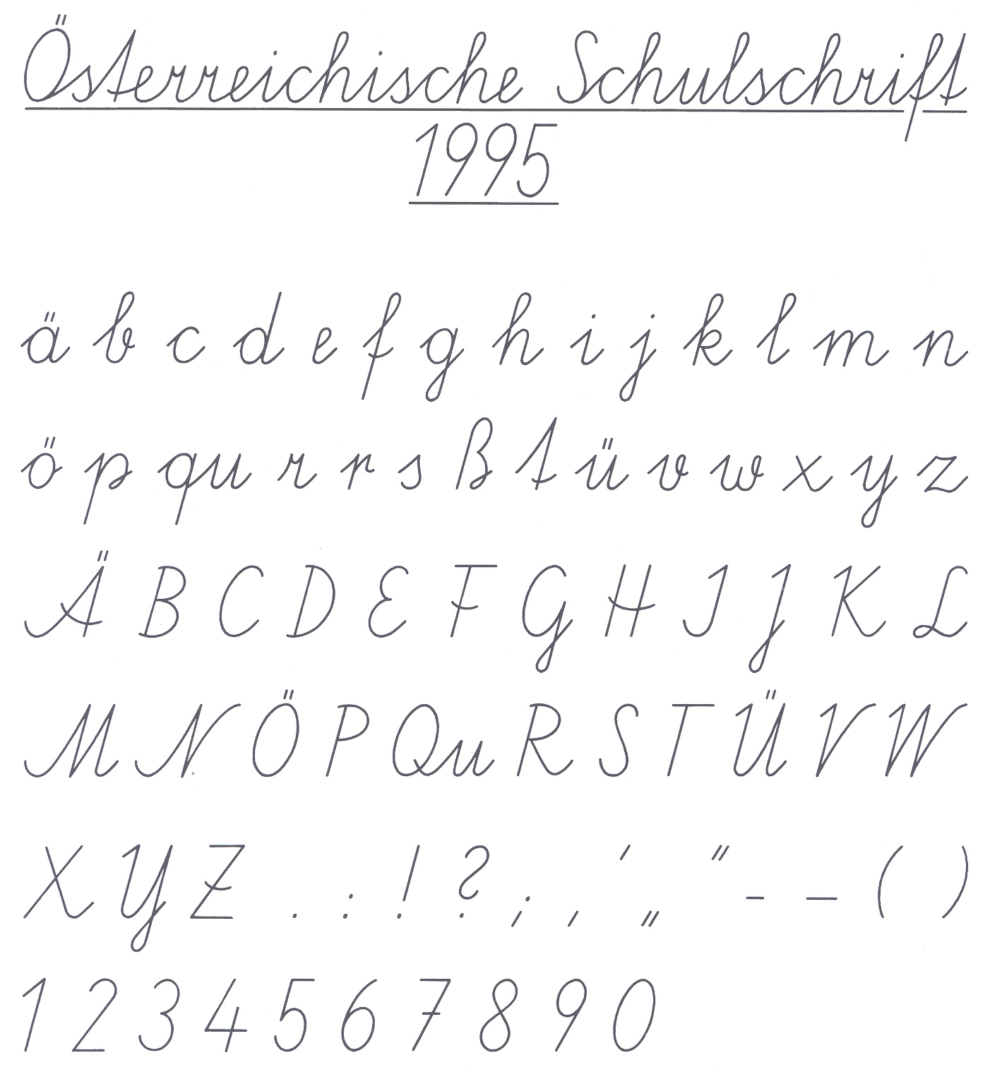 Austrian «Schulschrift», 1995 version, 2.: Schrägschrift